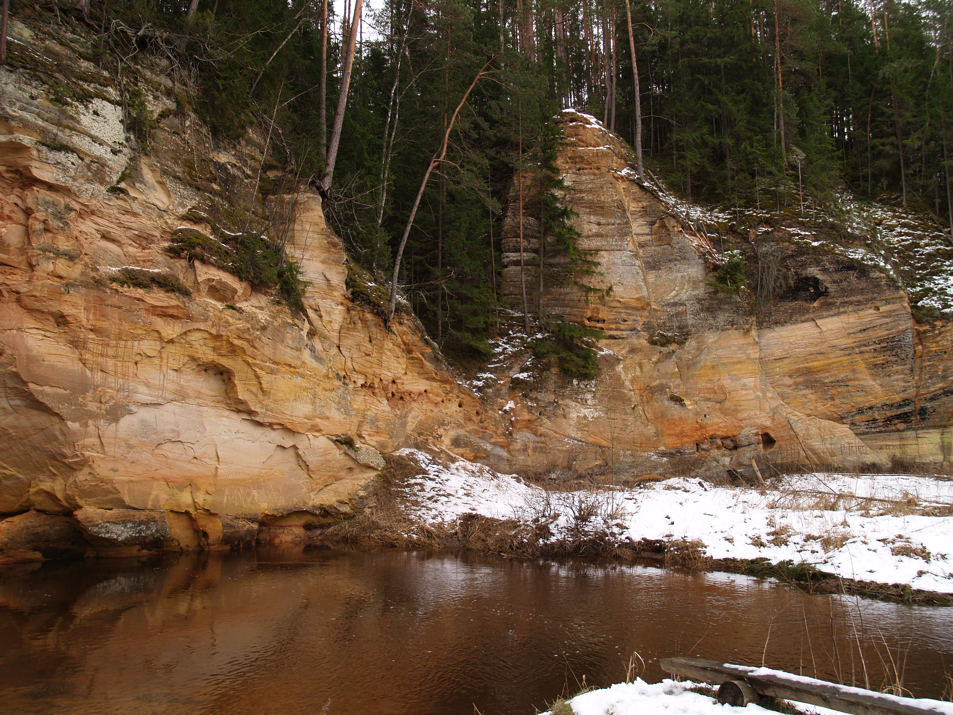 Lower Wall of Härma at Võrumaa, Estonia. In the valley of river Piusa.